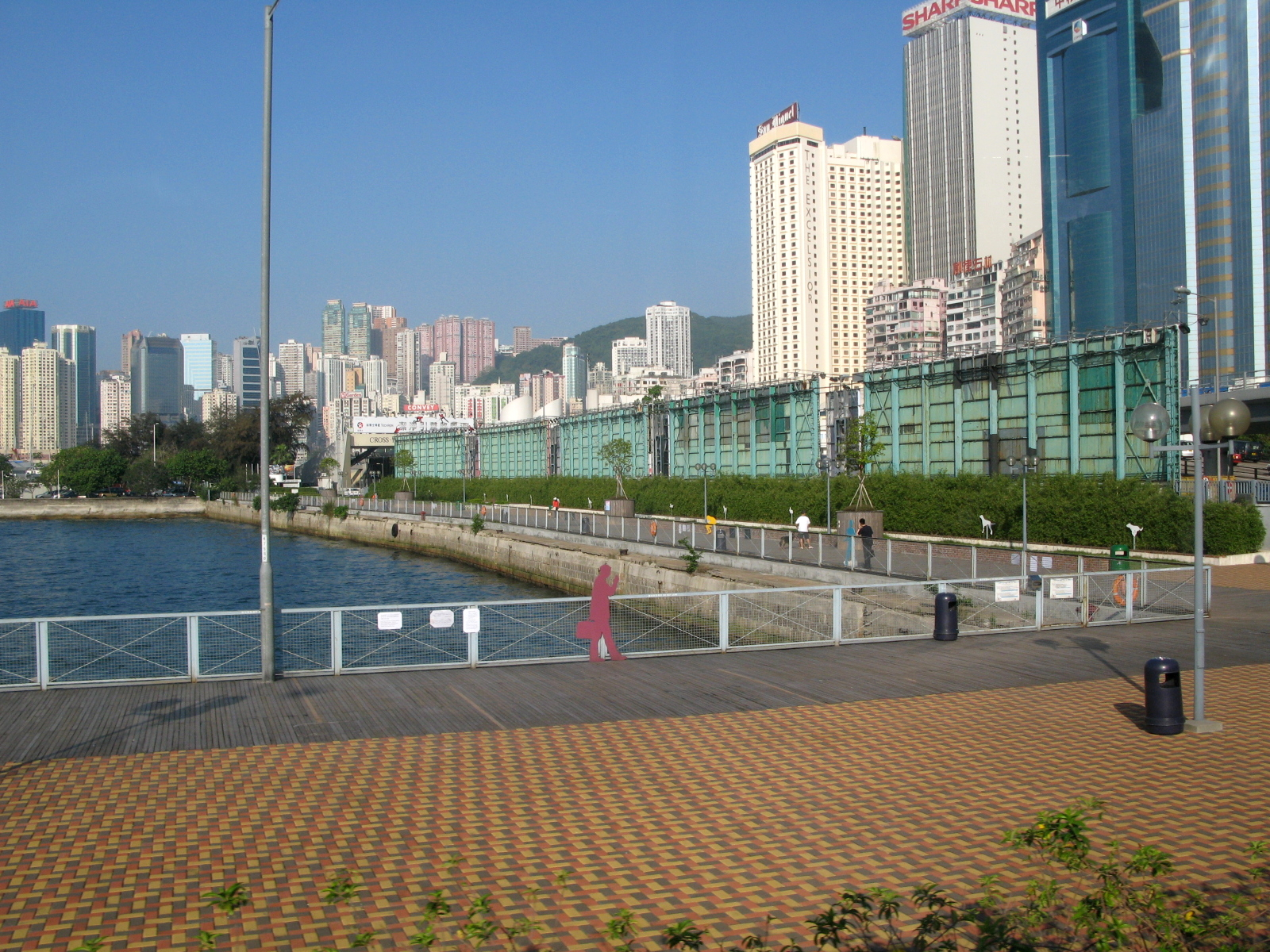 Wan Chai Waterfront Promenade 灣仔海濱長廊